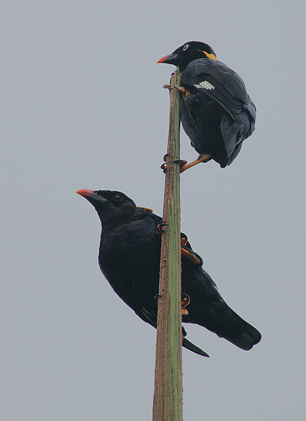 An adult and an immature photographed at dawn in the primary rain forest of Sinharaja, Sri Lanka.